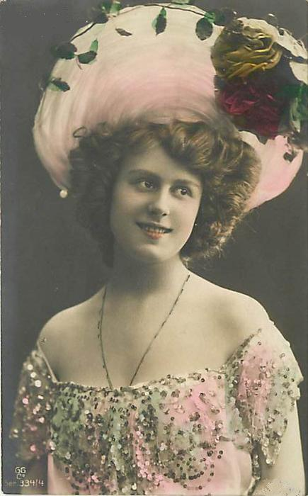 Her Royal Highness Violet Emily Ljubica Wegner, Montenegrin princess; actress, musician, artist.